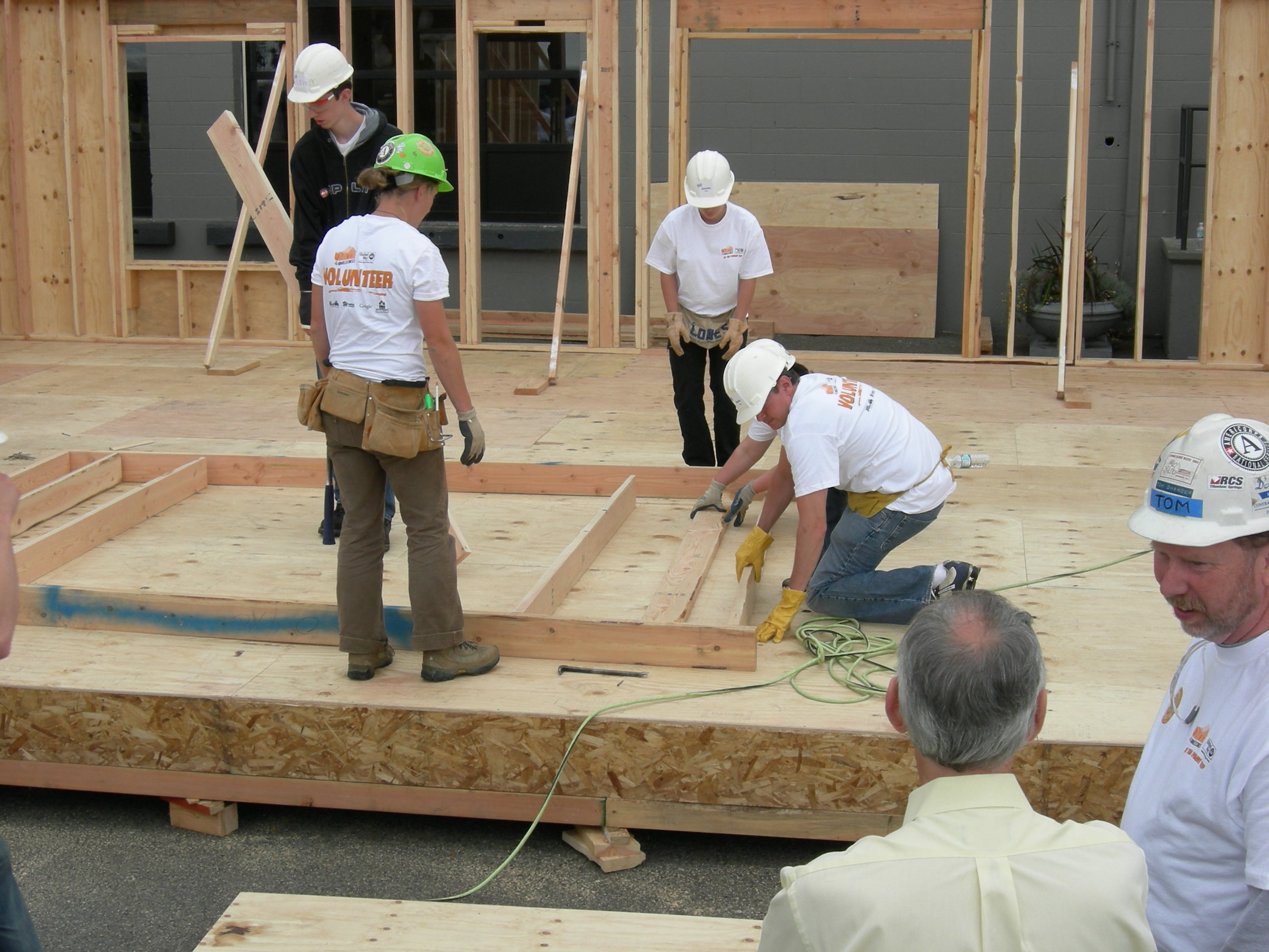 Habitat For Humanity volunteers constructing a house during the 2007 Fremont Fair, Seattle, Washington. The house would later be moved to Snoqualmie Ridge in Seattle's eastern suburbs.